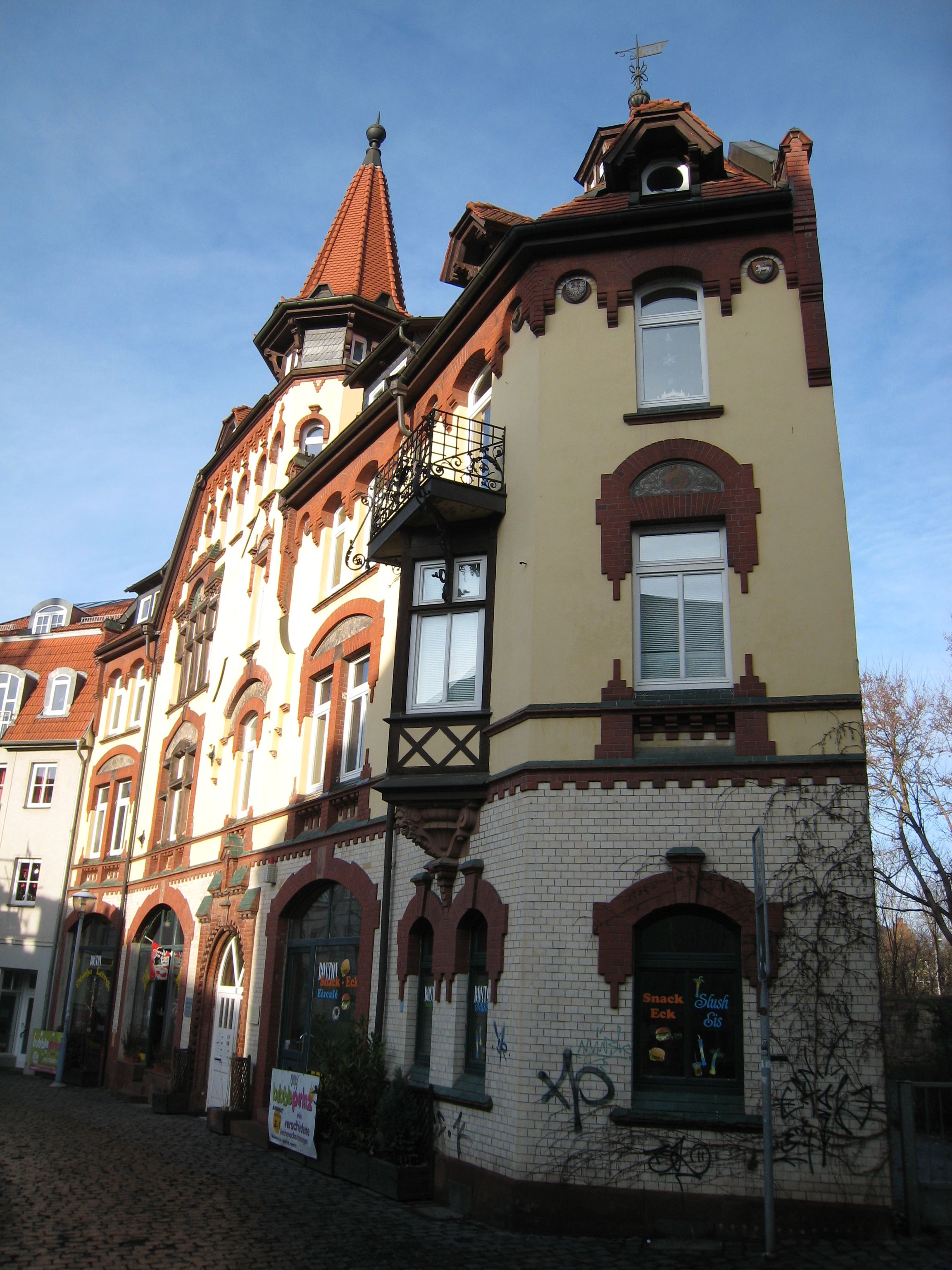 Haus Brühl 8 Gotha